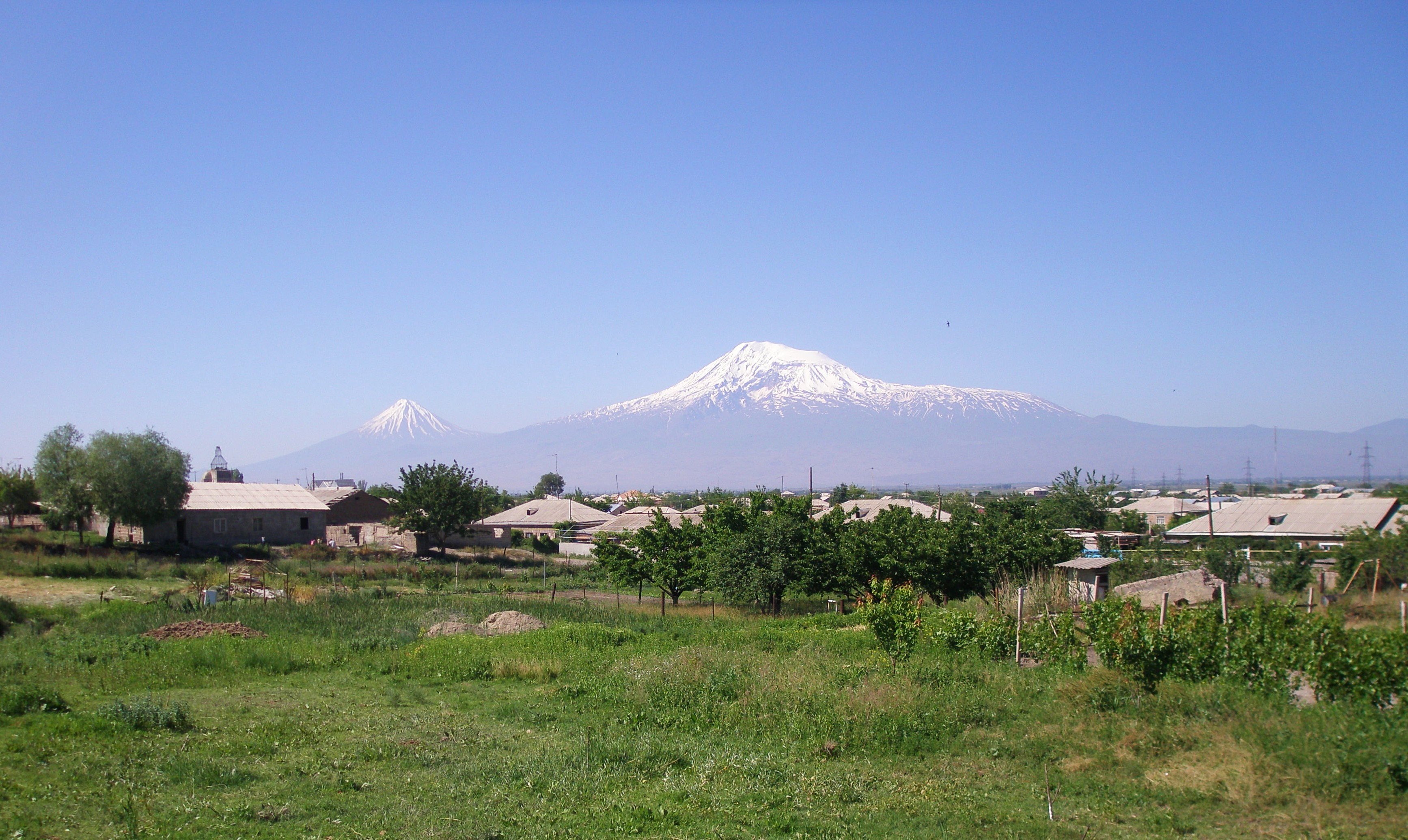 Nor Kyurin and adjacent village in the distance.